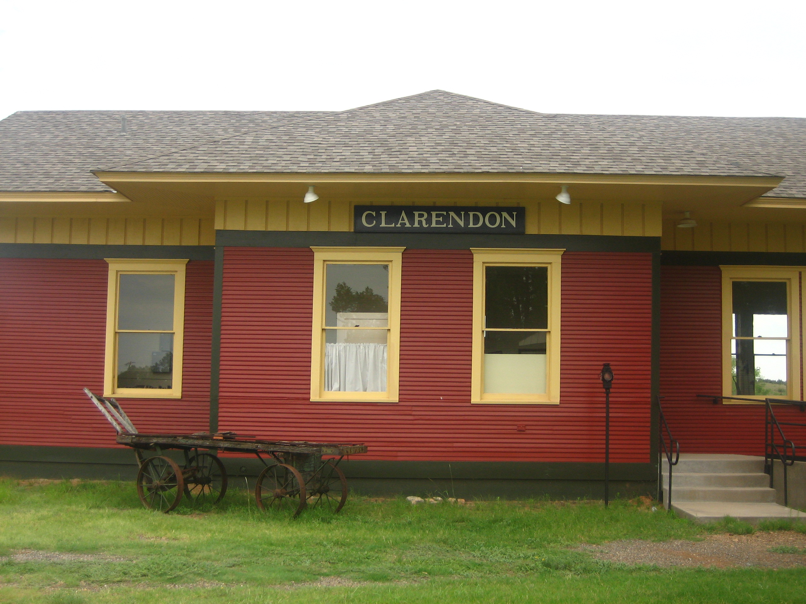 I took photo on July 15, 2008.Billy Hathorn (talk) 22:45, 22 July 2008 (UTC)